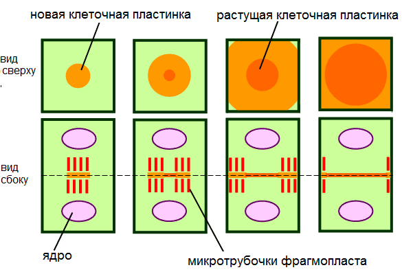 Phragmoplast and cell plate formation in a plant cell during cytokinesis. Left side: Phragmoplast forms and cell plate starts to assemble in the center of the cell. Towards the right: Phragmoplast enlarges in a donut-shape towards the outside of the cell, leaving behind mature cell plate in the center. The cell plate will transform into the new cell wall once cytokinesis is complete. (translation into russian)